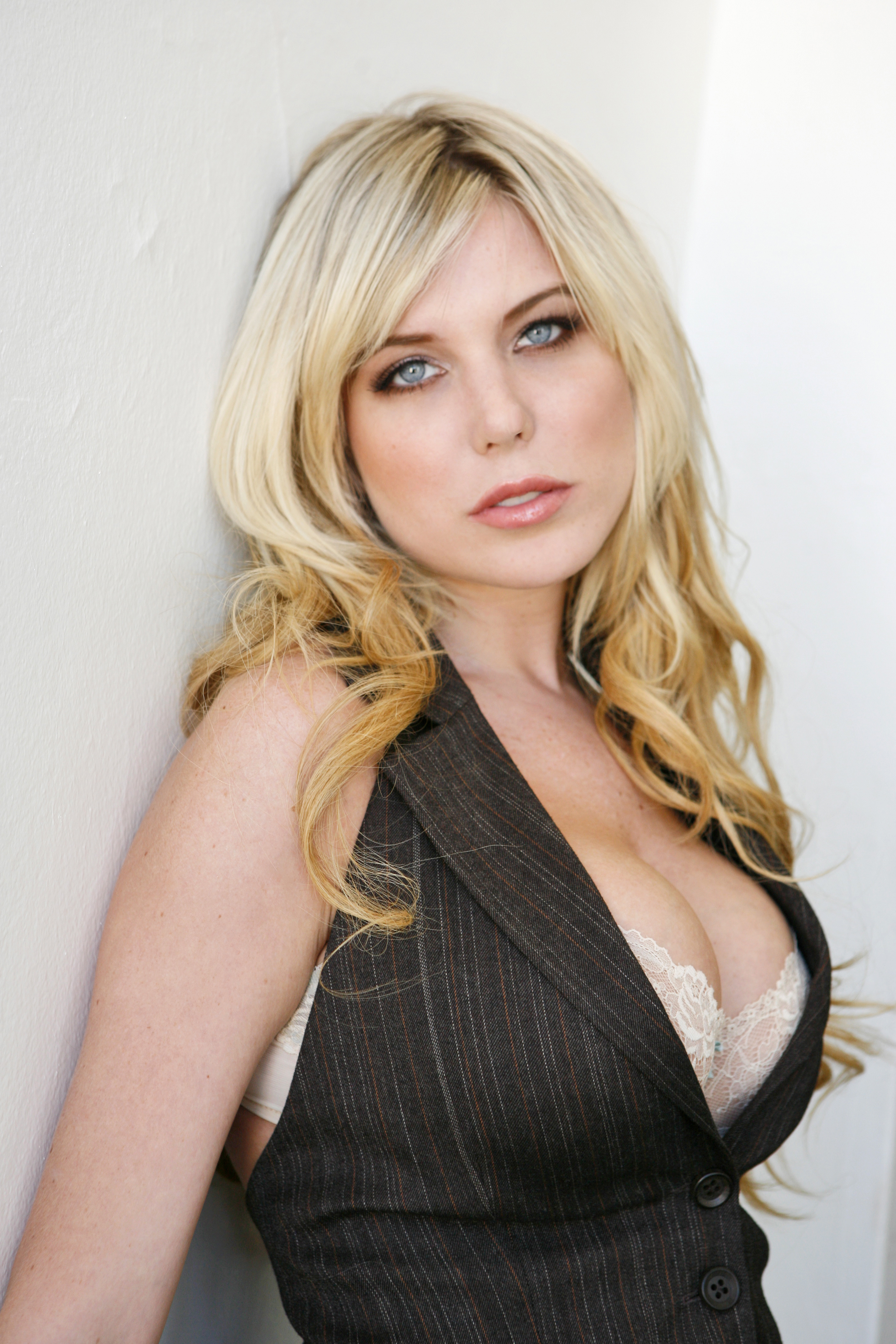 Alyssa Pallett photographed by Josh Ryan in Los Angeles :Hindi: अल्य्स्सा निकाले पल्लेत्त